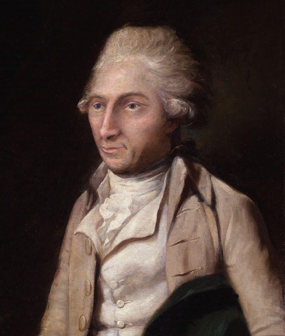 Cropped detail of File:George Macartney, 1st Earl Macartney; Sir George Leonard Staunton, 1st Bt by Lemuel Francis Abbott.jpg.